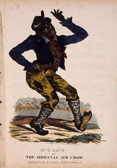 Cover to early edition of Jump Jim Crow sheet music Thomas D. Rice is pictured in his blackface role; he was performing at the Bowery Theatre (also known as the "American Theatre") at the time. This image was highly influential on later Jim Crow and minstrelsy images.